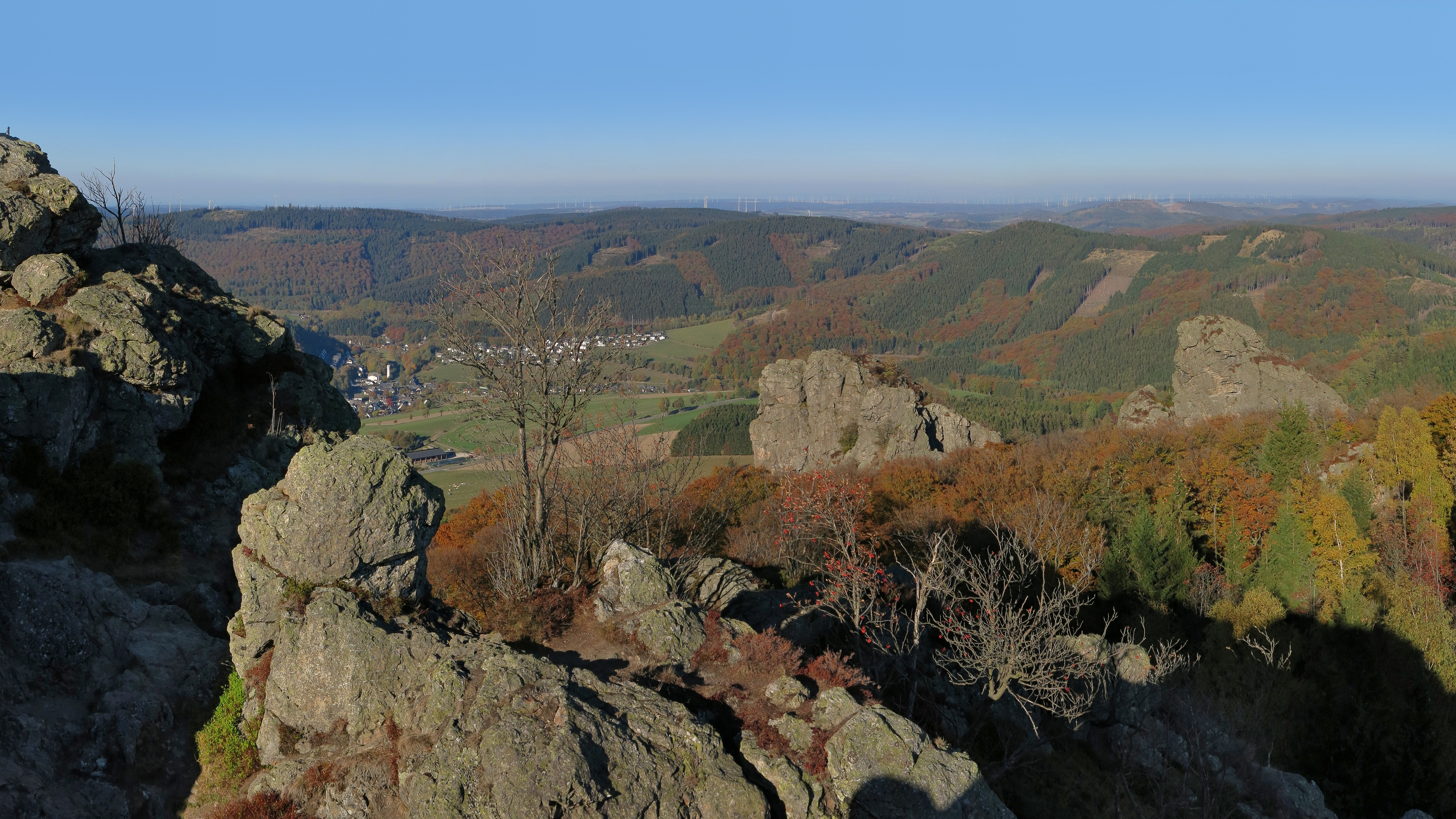 View from the Feldstein, the highest point of the Bruchhauser Steine in the Sauerland northeastward